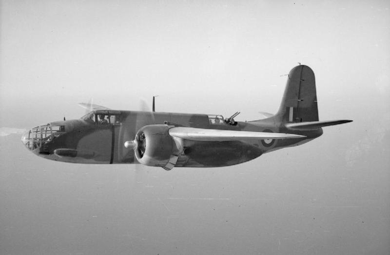 American Aircraft in Royal Air Force Service 1939-1945- Douglas Db7 and Db-7b Boston. Boston Mark III, Z2183 'E', of No. 24 Squadron SAAF, in flight on an air test shortly after the Squadron re-equipped with the type at Shandur, Egypt.